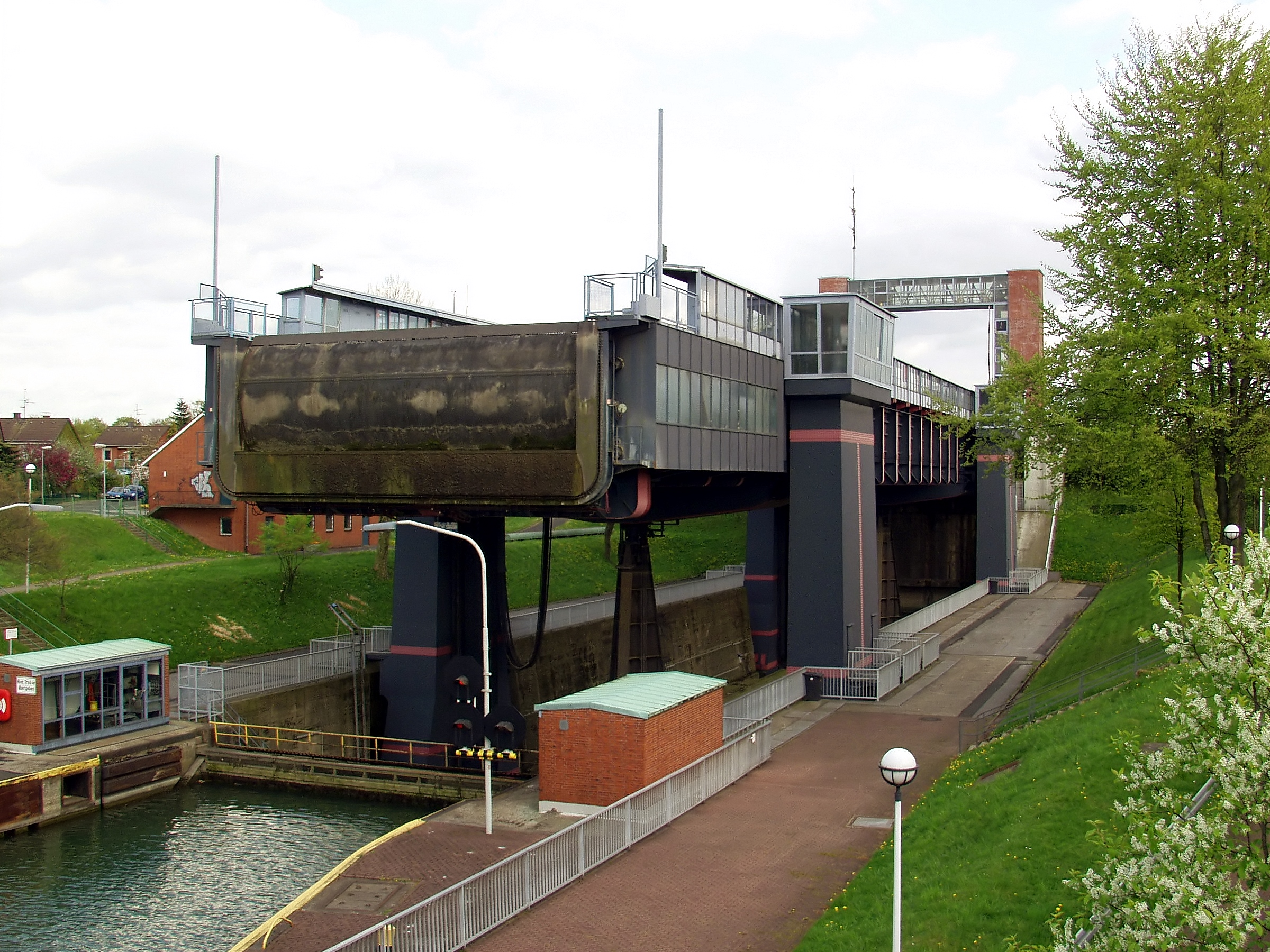 The new boat lift at Henrichenburg, Germany